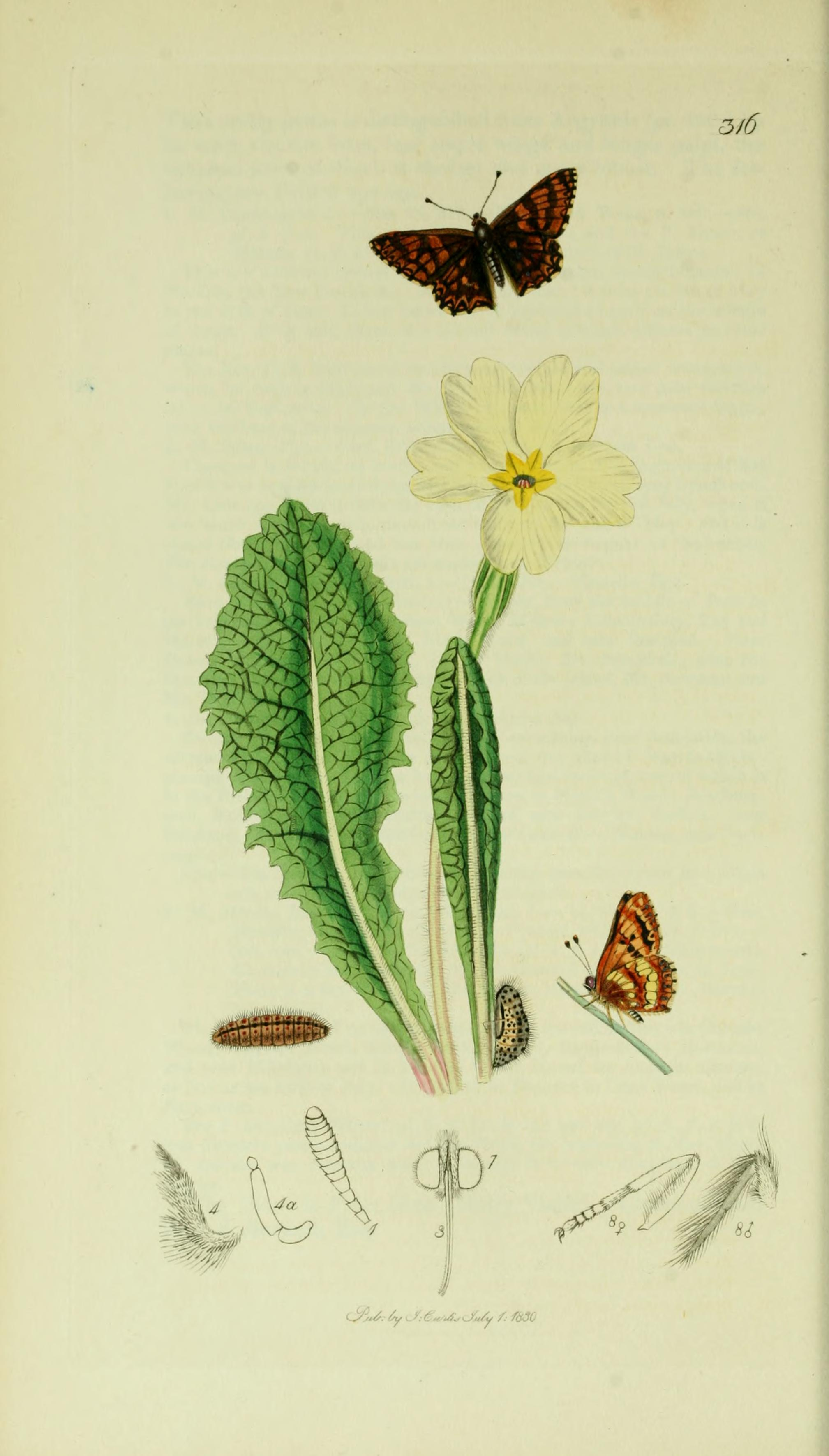 An illustration from British Entomology by John Curtis. Hamearis lucina (Duke-of-Burgundy Fritillary).